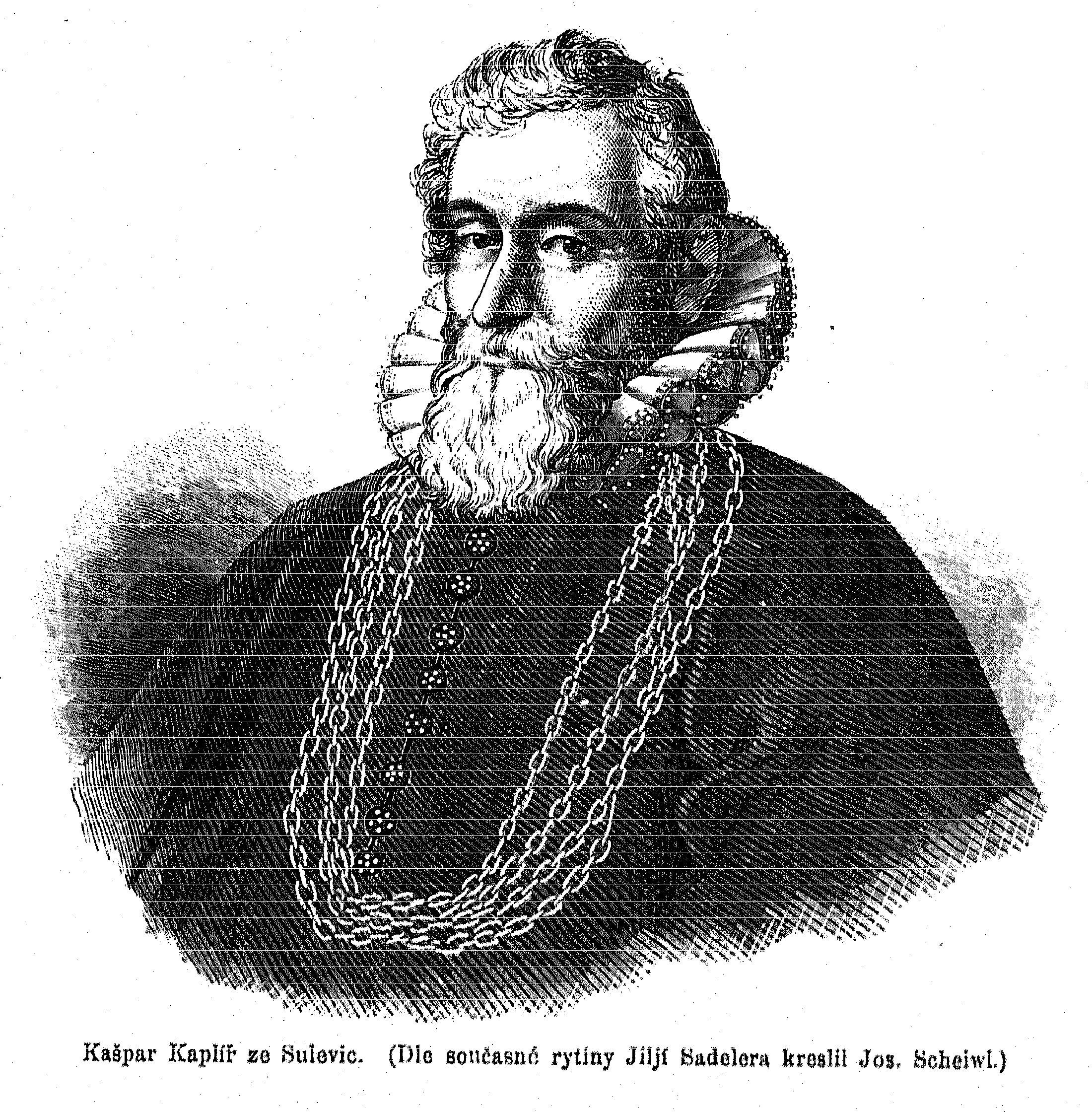 Portrait of Kašpar Kaplíř ze Sulevic (German: Kaspar Cappleri de Sulewicz, 1535 - 1621), a Czech nobleman executed for his participation in anti-Habsburg uprising of 1620.